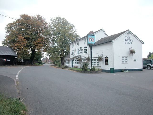 The Corbet Arms. Village Inn in the Shropshire village of Upton Magna.